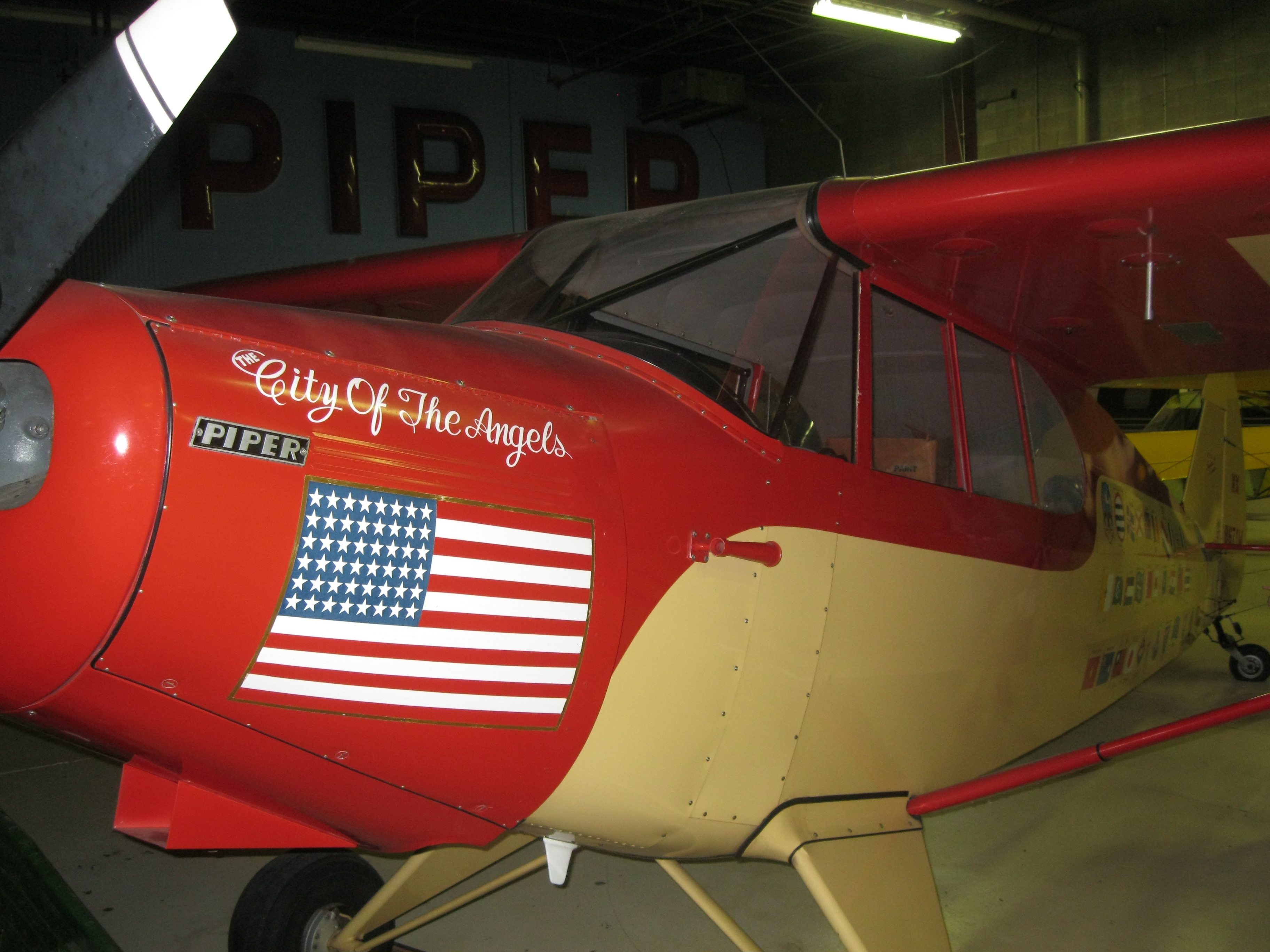 Piper PA-12 Super Cruiser "City of The Angels" which made an around the world flight in 1947, on display at the Piper Aviation Museum in Lock Haven, Pennsylvania, USA.